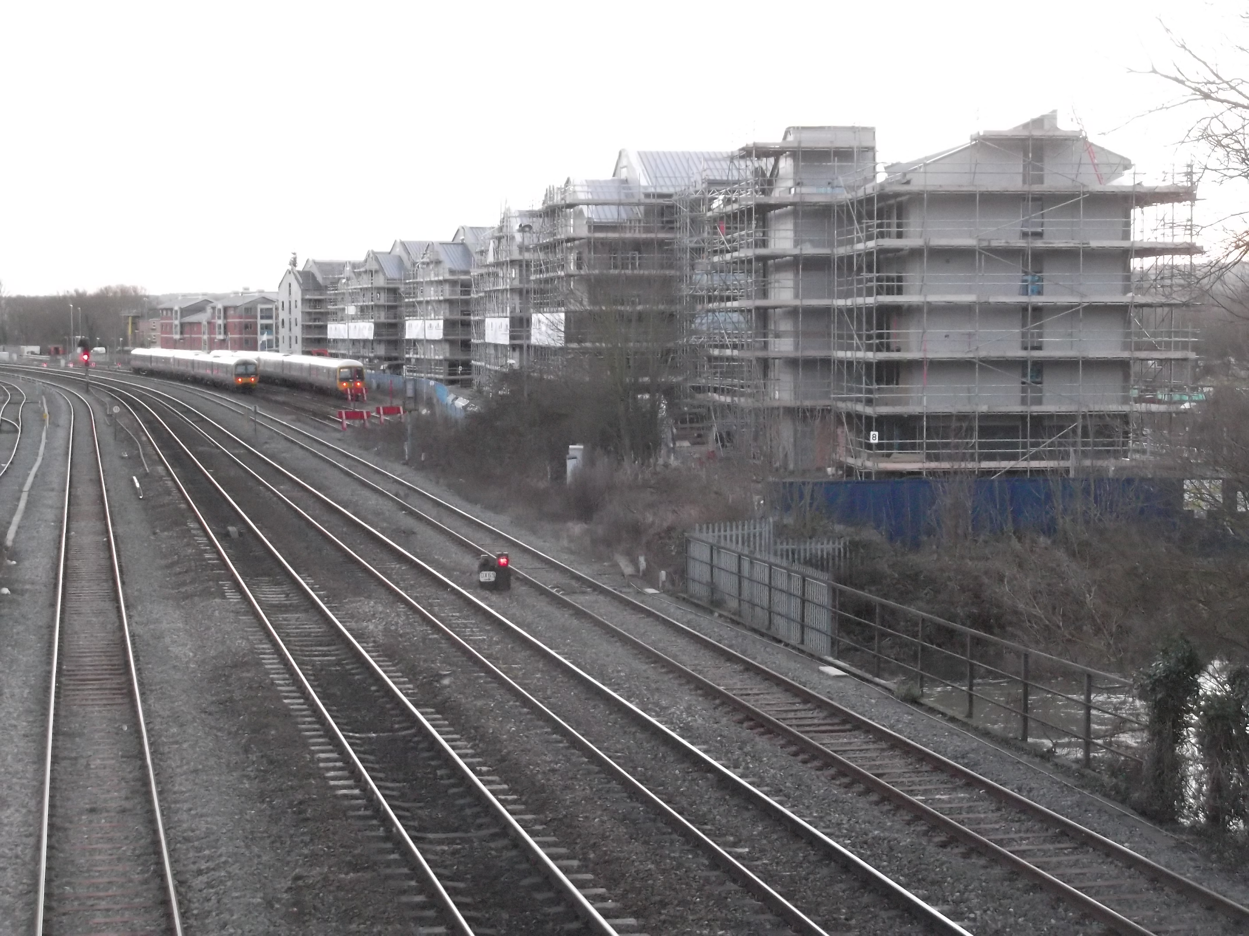 New University of Oxford graduate housing by the railway, seen from Walton Well Road Bridge, Oxford,England